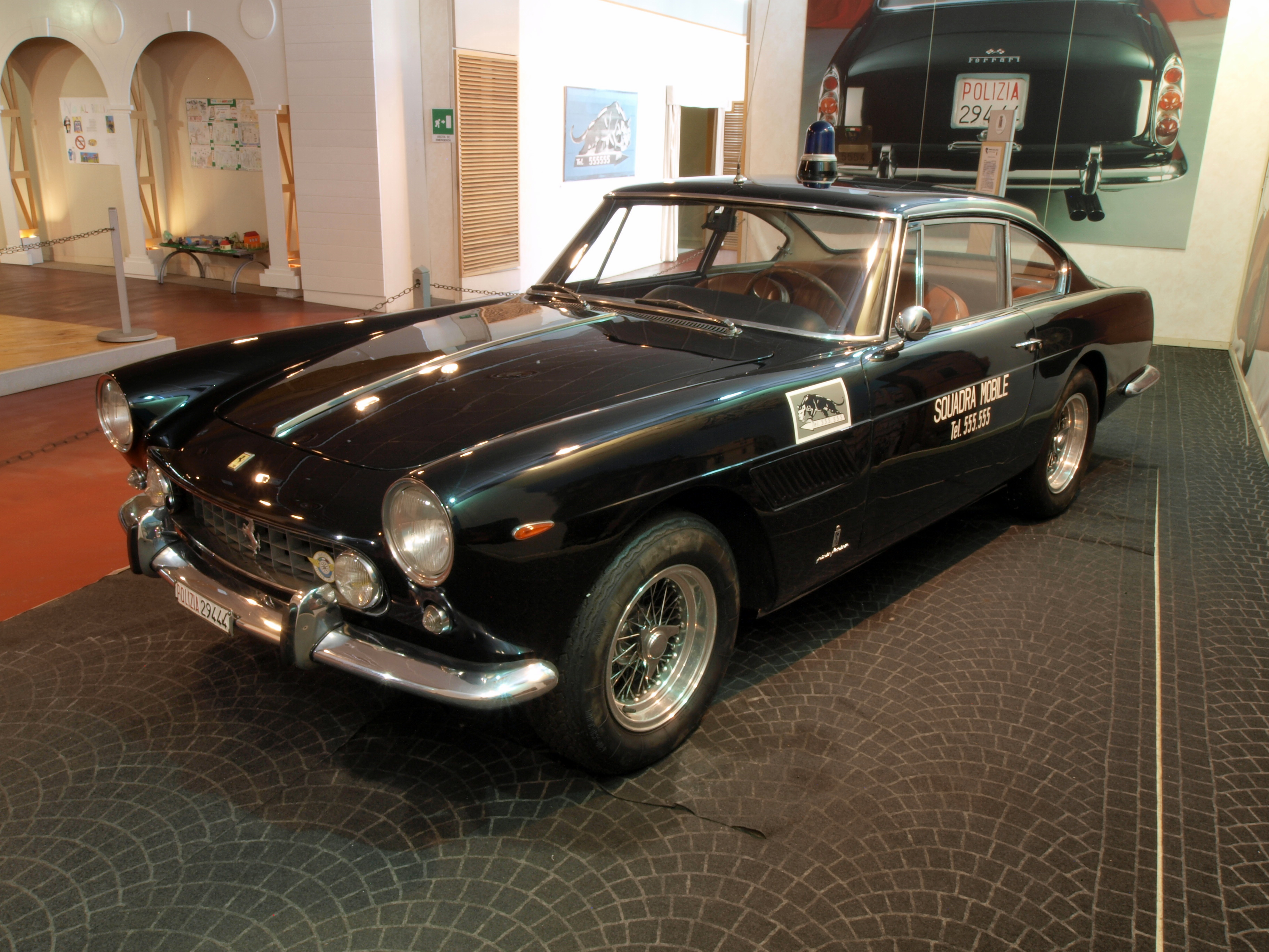 Photographed at Rome, Italy.